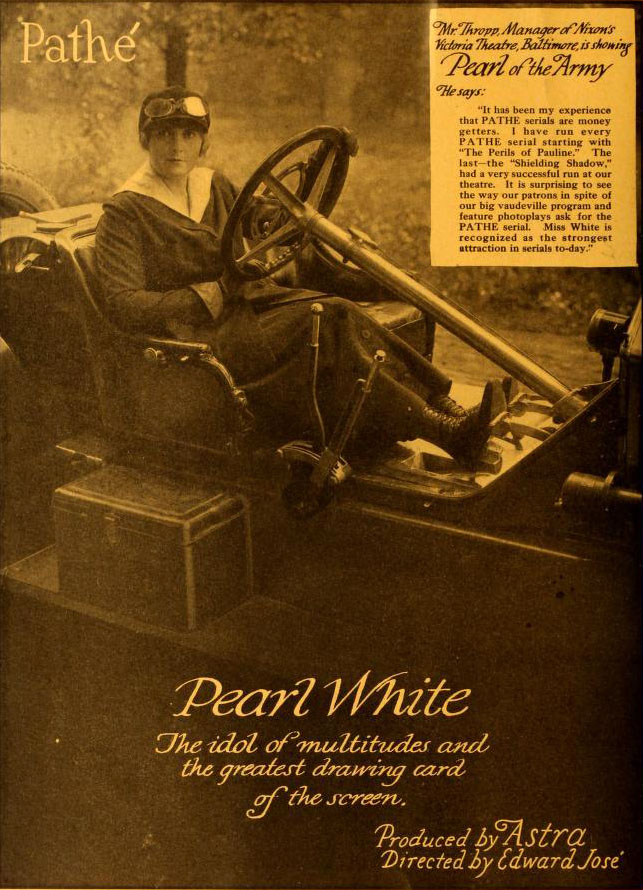 Advertisement in Moving Picture World for the American film serial Pearl of the Army (1916).